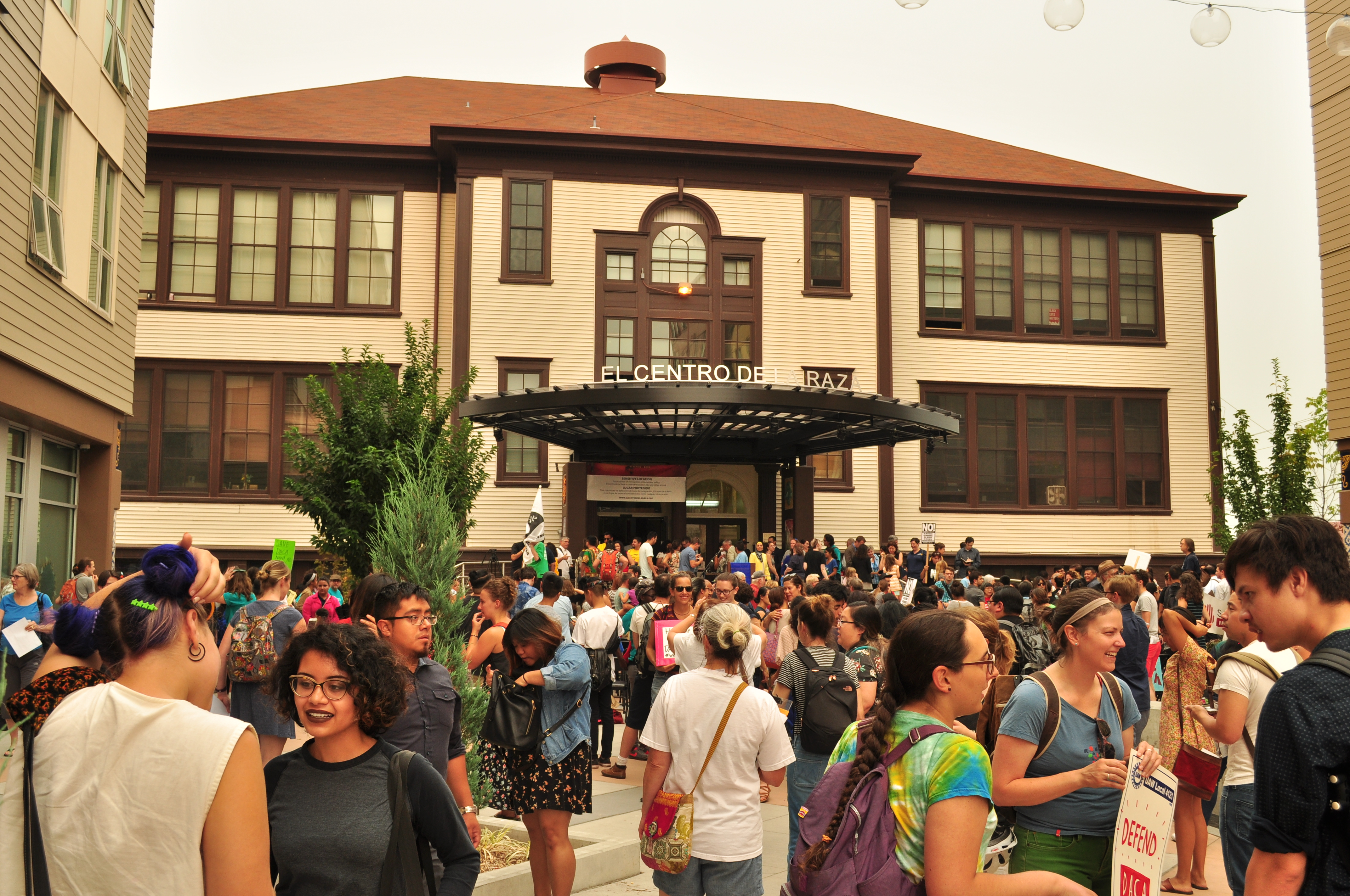 Defend DACA rally, Plaza Roberto Maestas (outside El Centro de la Raza, which can be seen in the background), Beacon Hill, Seattle, Washington, U.S., September 5, 2017.